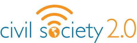 Civil Society 2.0 olgo